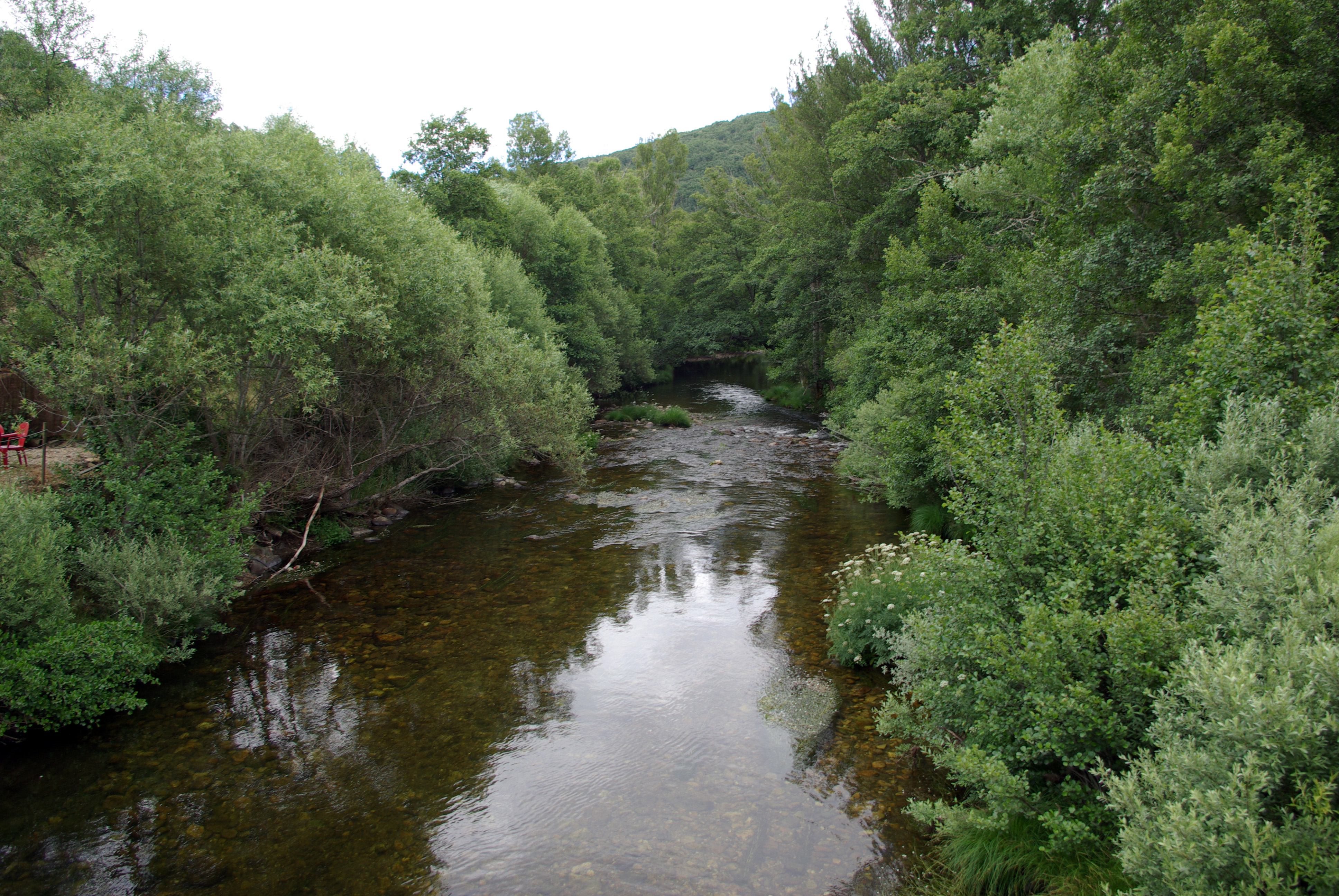 River Omaña in La Omañuela (Riello, León, Spain)